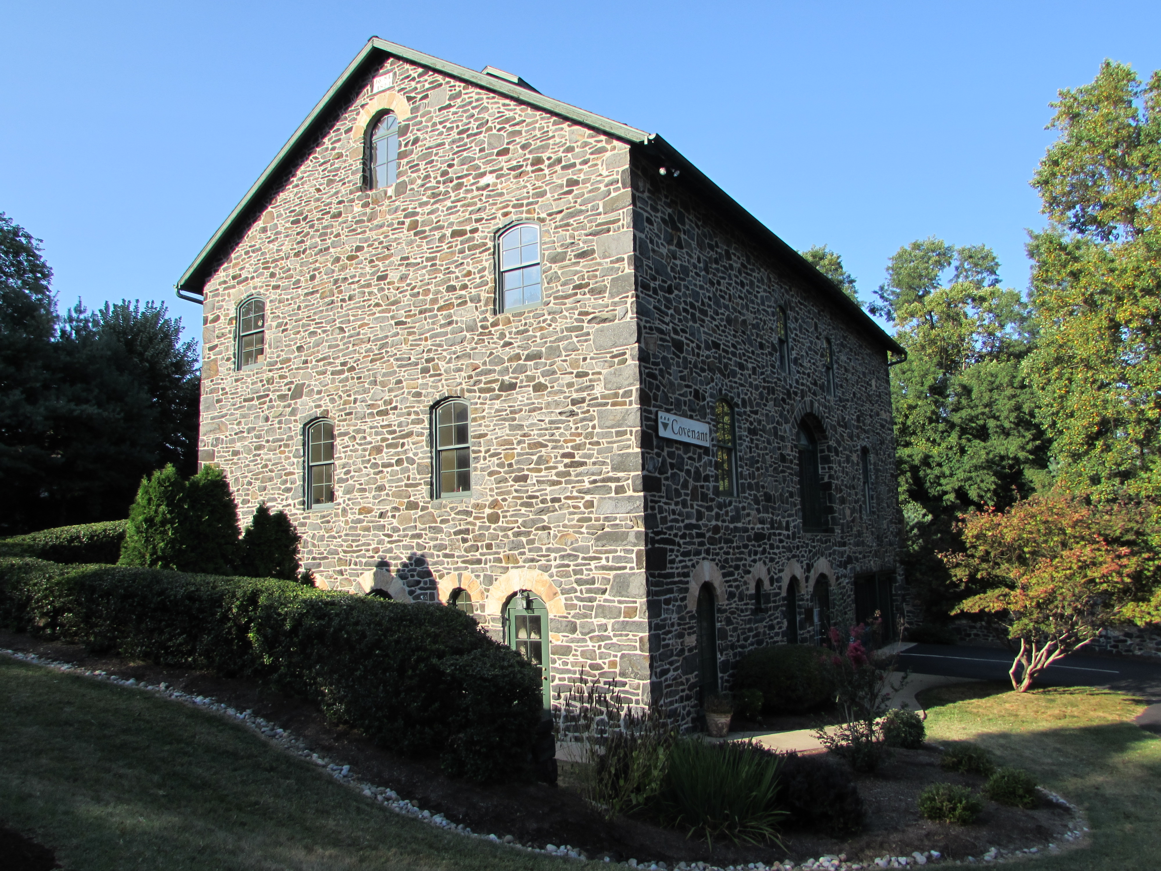 Side and rear of J. Lindsay Barn, highlighting large stone quoins.